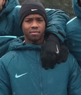 Players of Qatar's U23 team lined up for a picture at a training pitch for the 2018 AFC U-23 Championship in China.